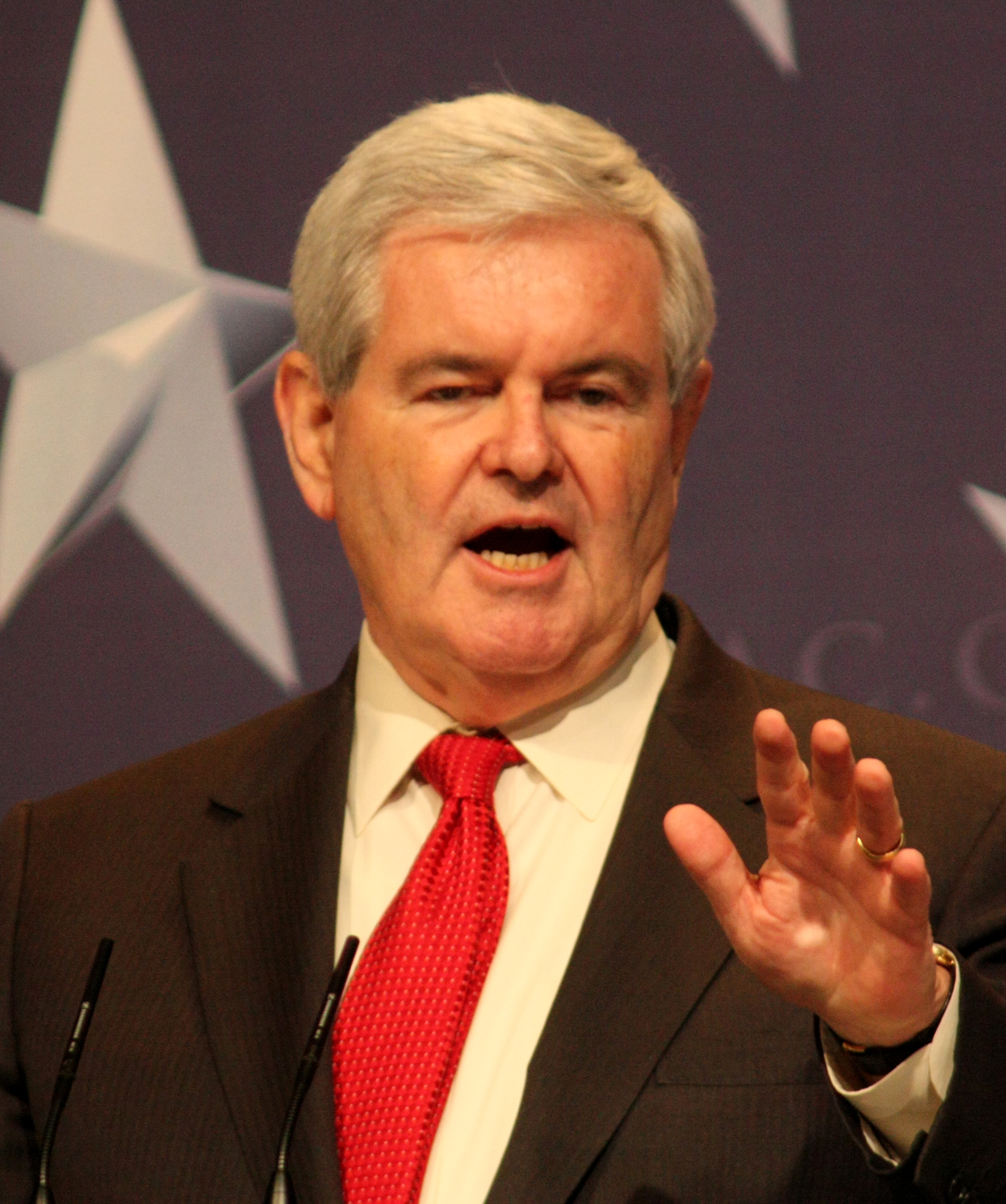 Former Speaker of the House Newt Gingrich at CPAC in Washington, D.C..